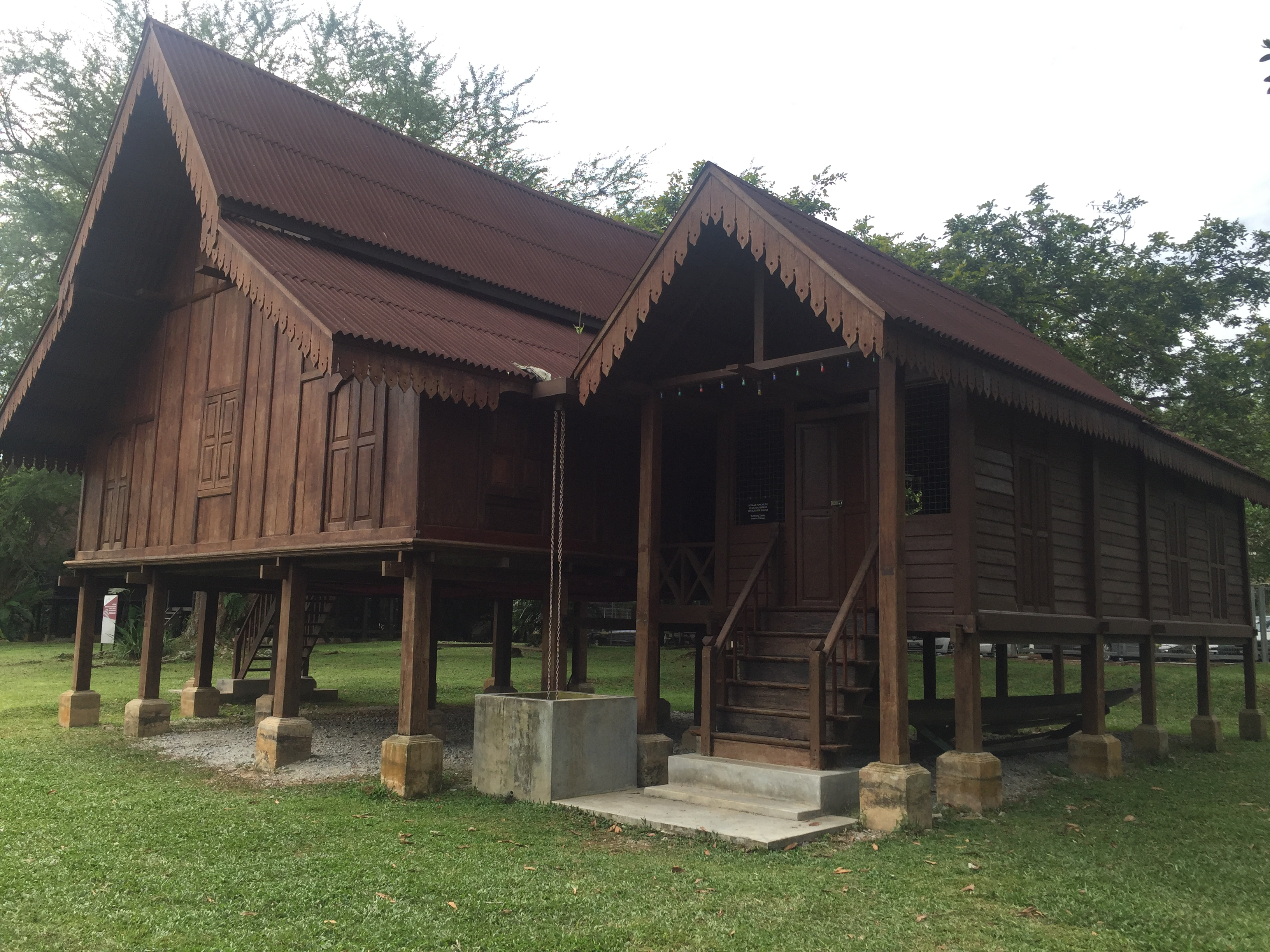 Traditional Pahang house belong to Penghulu Tuan Haji Ismail bin Khatib Khatib Bakar from Kampung Kelola, Jerantut, Pahang. The house was displayed at Malay Heritage Museum, Universiti Putra Malaysia